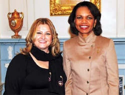 International Women of Courage winner, Valdete Idrizi (l) with Secretary Rice (r) March 10, 2008